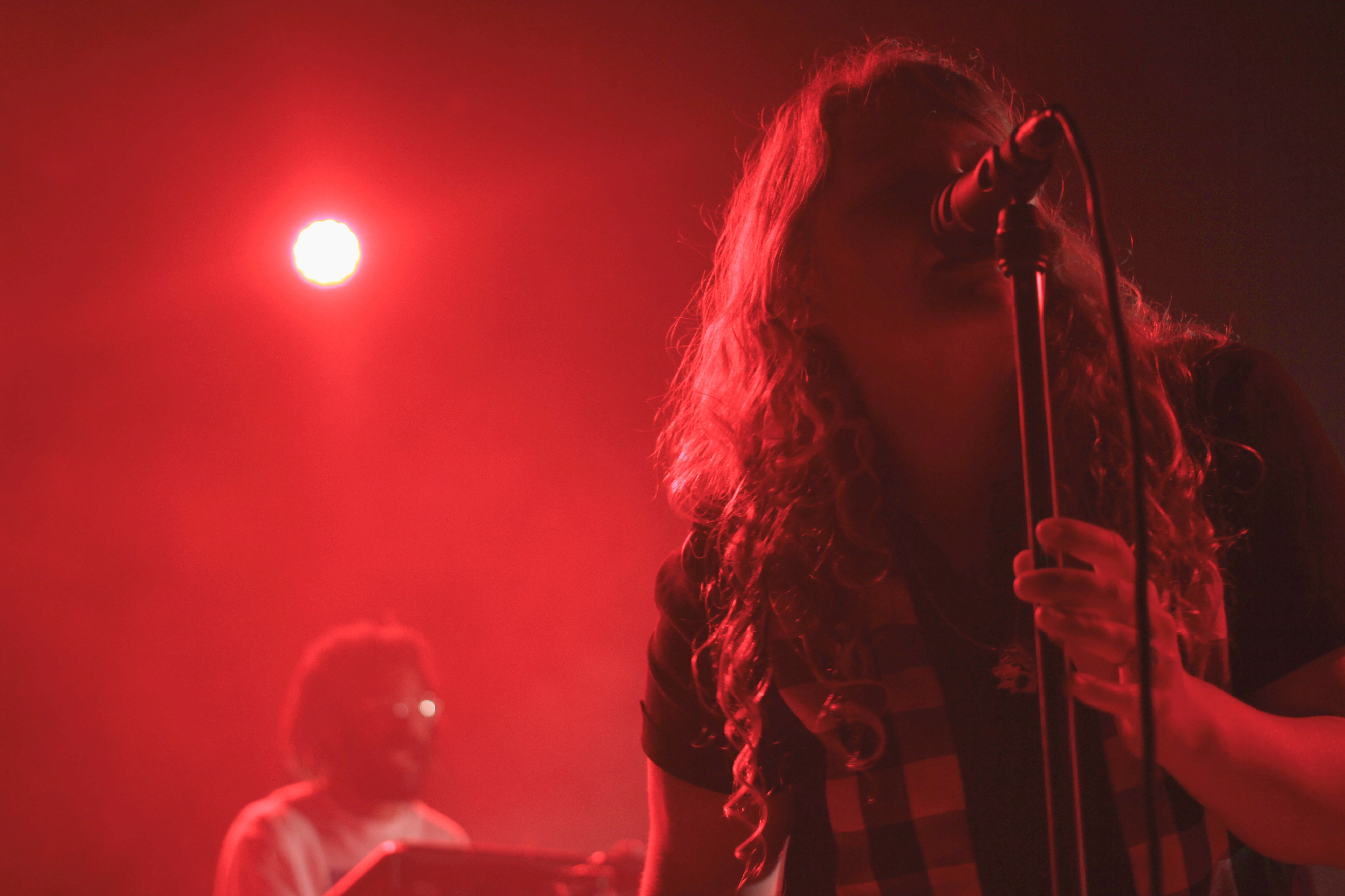 Kate Tempest @Way Out West 2015